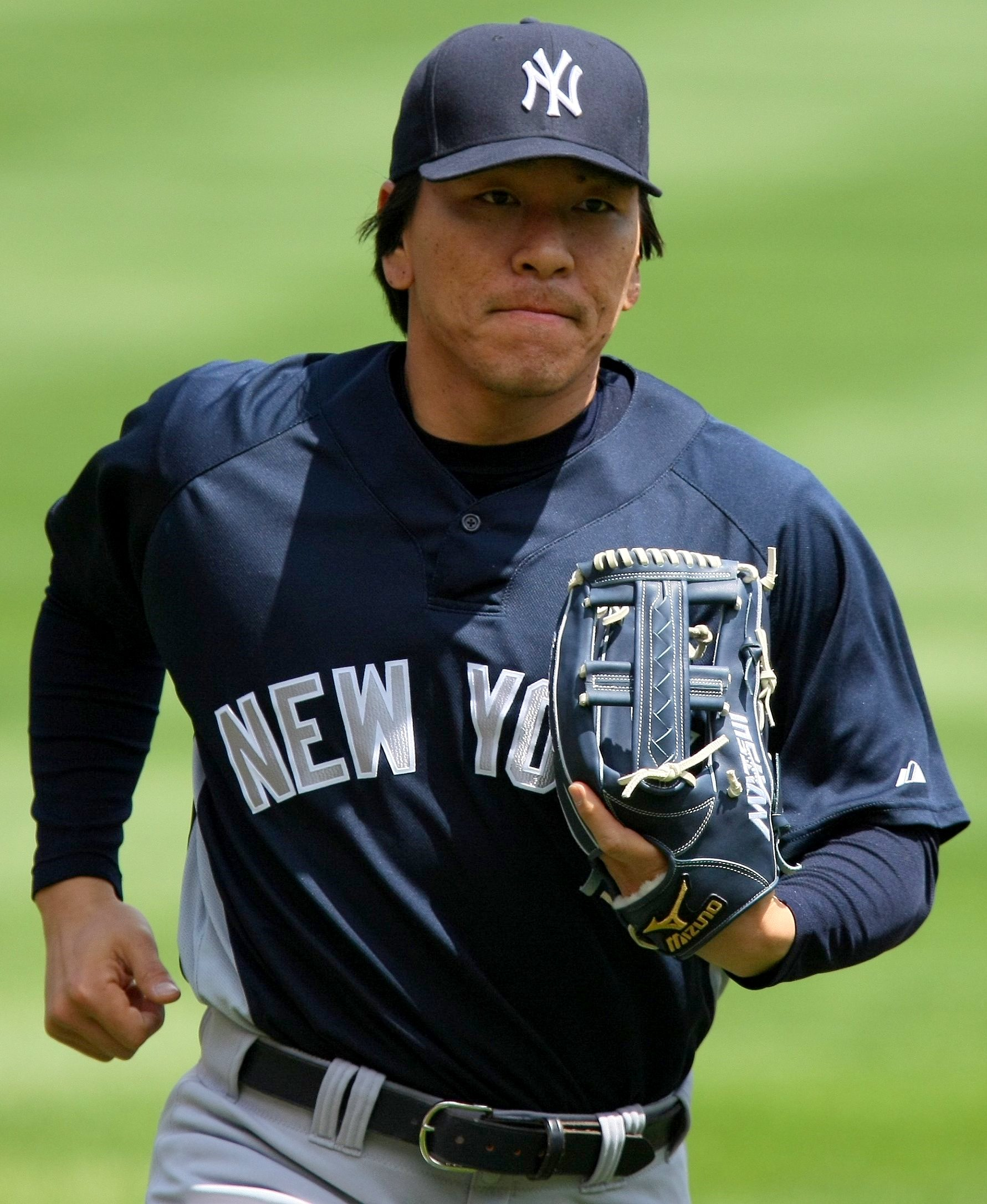 Hideki Matsui at Orioles vs. Yankees in May 2009.